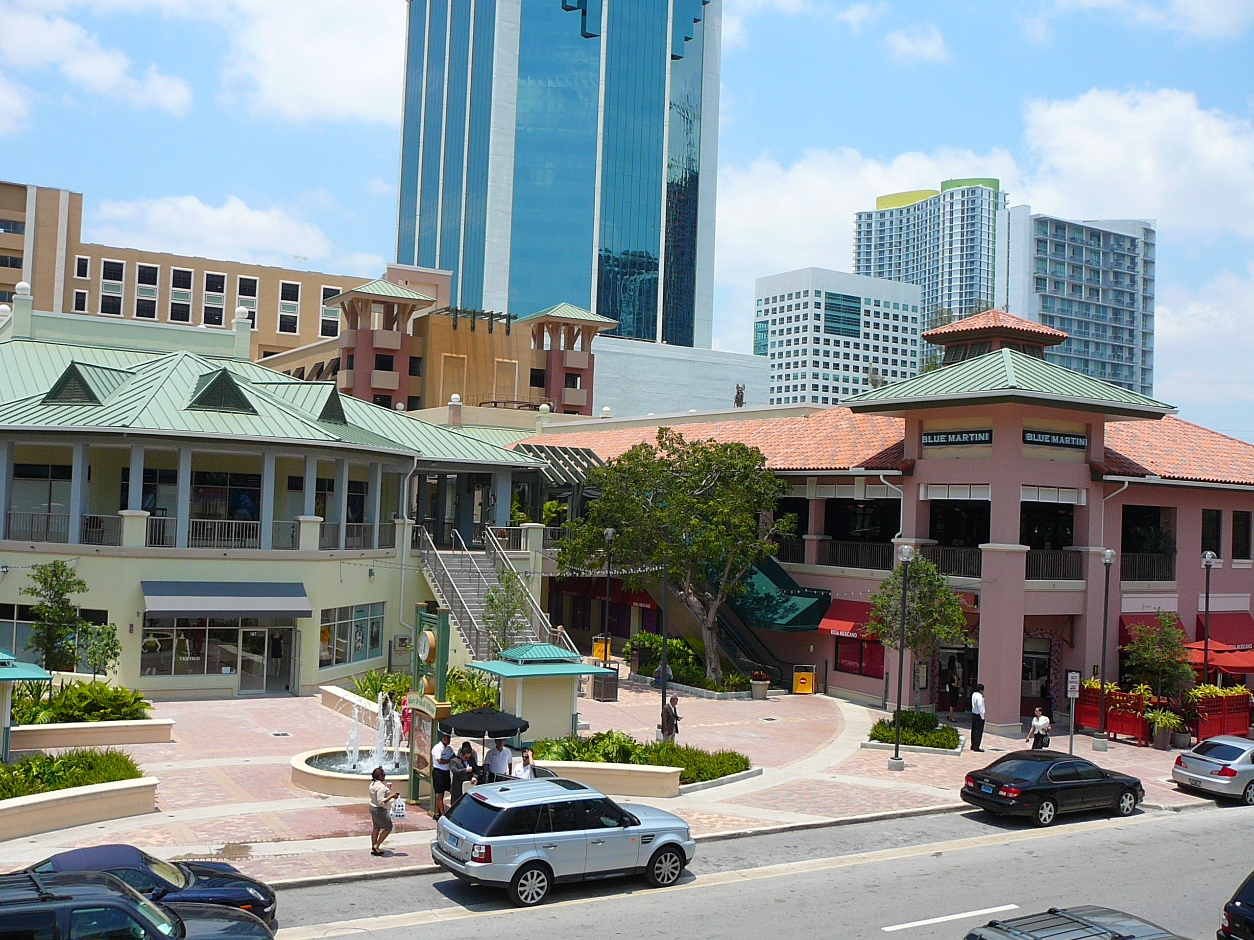 Digital photo taken by Marc Averette. Entrance to west side of Mary Brickell Village in Downtown Miami 5/14/2008.